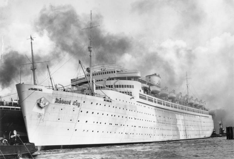 KdF-Schiff "Robert Ley" vor seiner Jungfernfahrt Das vorbildliche Kdf-Schiff "Robert Ley" nach dem Verlassen des Docks. Bild Haine 16.3.39 Information added by Wikimedia users.==Ship== Type: Passenger ship 1939 Built by Howaldtswerke, Hamburg, Germany Yard No: 754 Launch Date: 29.3.38 Date of completion: 3.39 Length overall: LPP: 193.7 Beam: 24.1 Tons: 27288 DWT: Speed: 15 kn History 1938 Named Robert Ley for Deutsche Arbeitsfront GmbH, Hamburg Flag: Germany 24.03.45 Bombed by aircraft 06.06.47 Broken up Inverkeithing